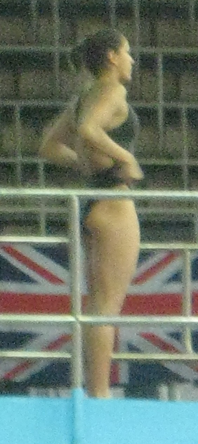 Third day of the 2013 FINA Diving World Series in Moscow. April 28, 2013.